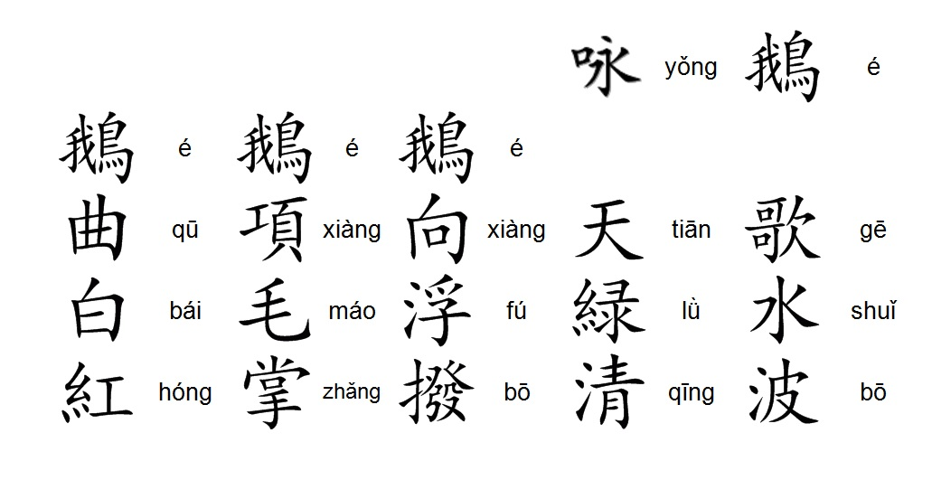 Luo Binwang (640?-684?), Ode to the Goose, poem in traditional Chinese characters and pinyin transcription